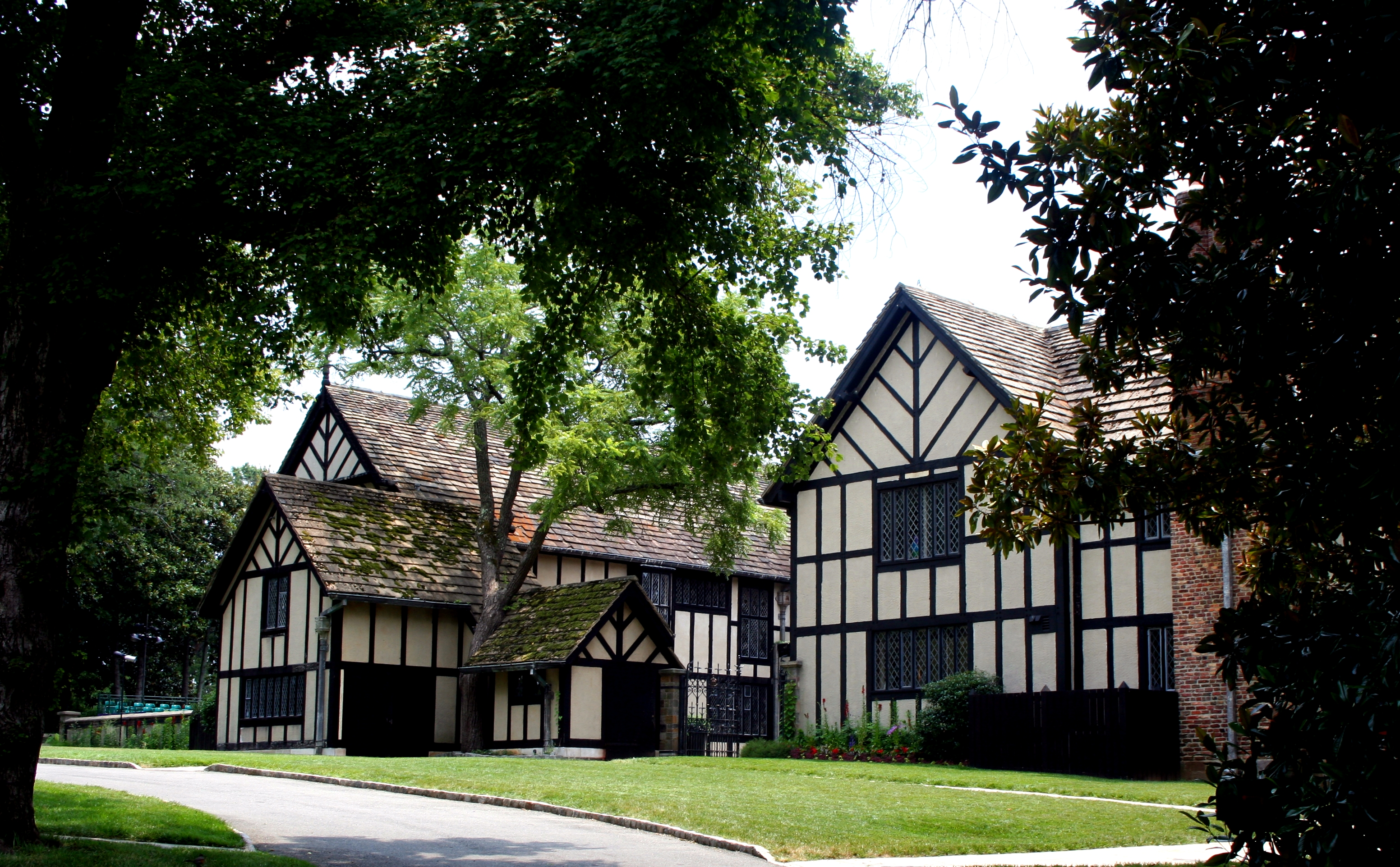 Agecroft Hall was built in Lancashire, England in the late 15th century. For hundreds of years it was the home of first the Langley and then the Dauntesey families. At the end of the 19th century however it had fallen into disrepair and was eventually put up for auction in 1925. Hearing of this Thomas C. Williams from Richmond. Va. purchased the structure, had it dismantled, crated, shipped across the Atlantic and then reassembled in Richmond. The home is now a museum and it and the gardens are open to the public.